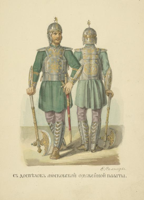 Armour from Moscow Armory.